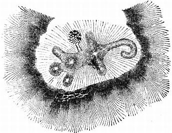 Drawing of Alligator Effigy Mound in Licking County, Ohio.